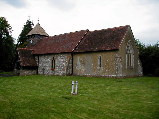 St Andrew's Church, Medstead, near to Medstead, Hampshire, Great Britain. A good history of the church can be found here : Link